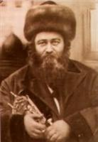 Rabbi Meir Shapiro, (1887-1933).